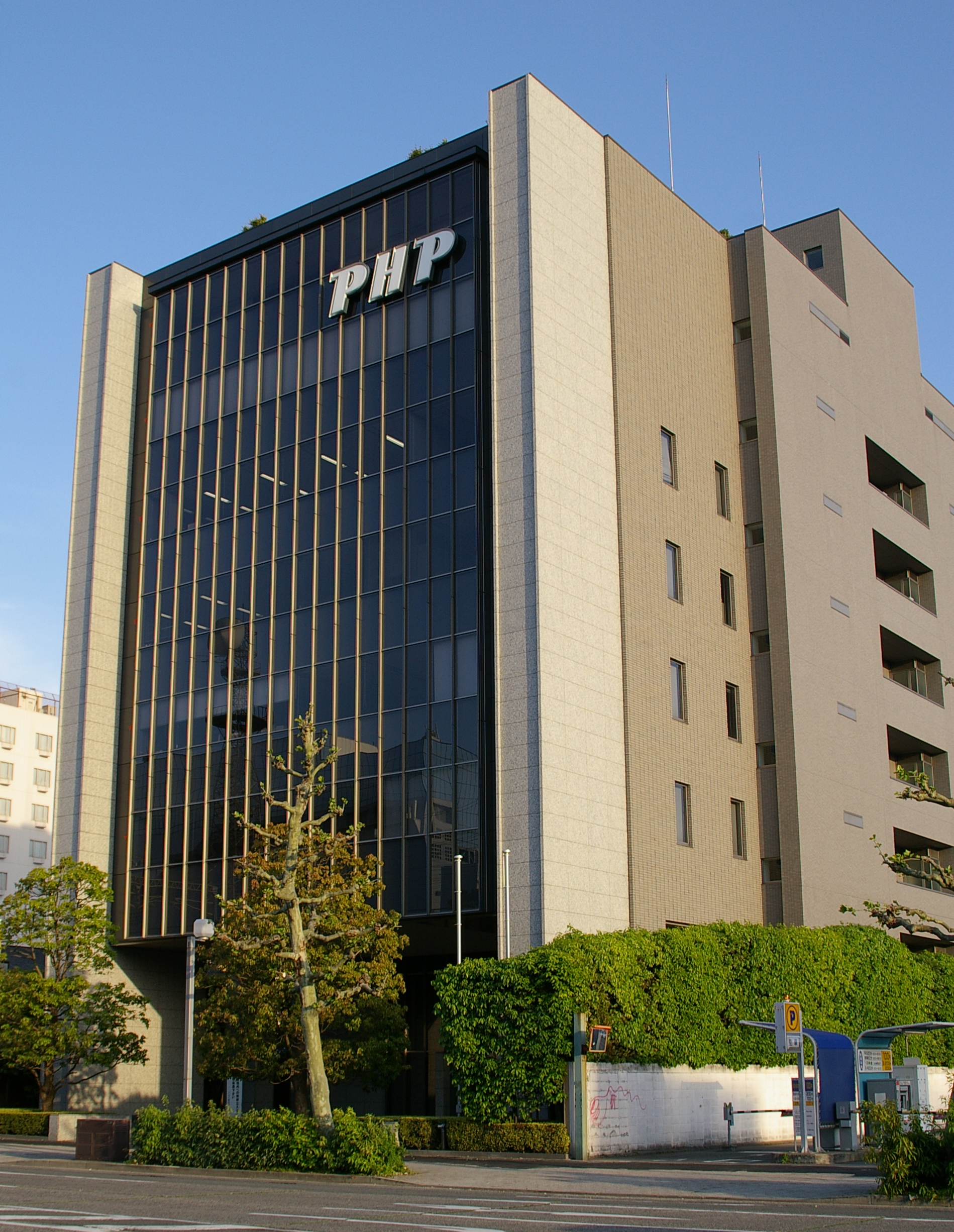 Photograph of PHP Building, Kyoto head office of PHP Research Institute and PHP Institute, in Minami-ku, Kyoto, Kyoto Prefecture, Japan.